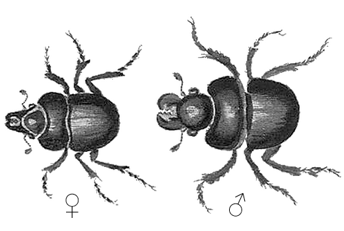 Lethrus cephalotes